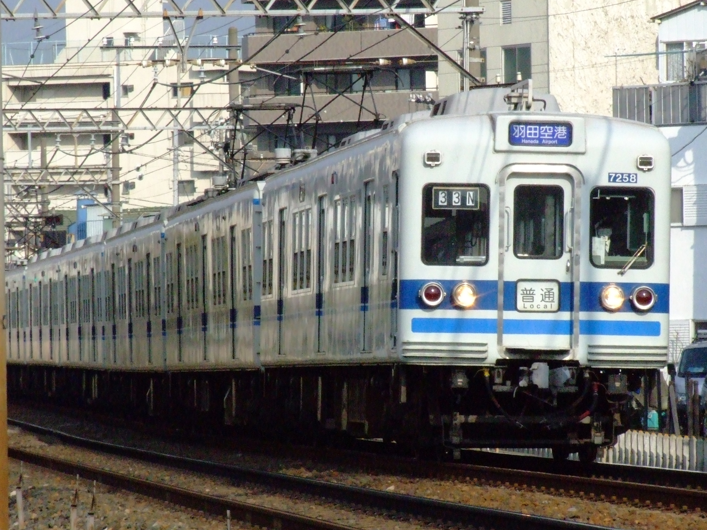 Hokuso Railway type 7250